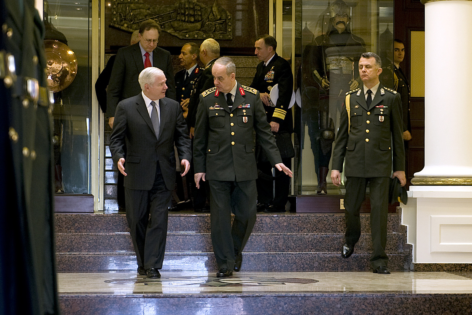 Secretary of Defense Robert M. Gates walks with Turkish Chief of General Staff Gen. Ilker Basbug after their meeting in Ankara, Turkey, on Feb. 6, 2010.